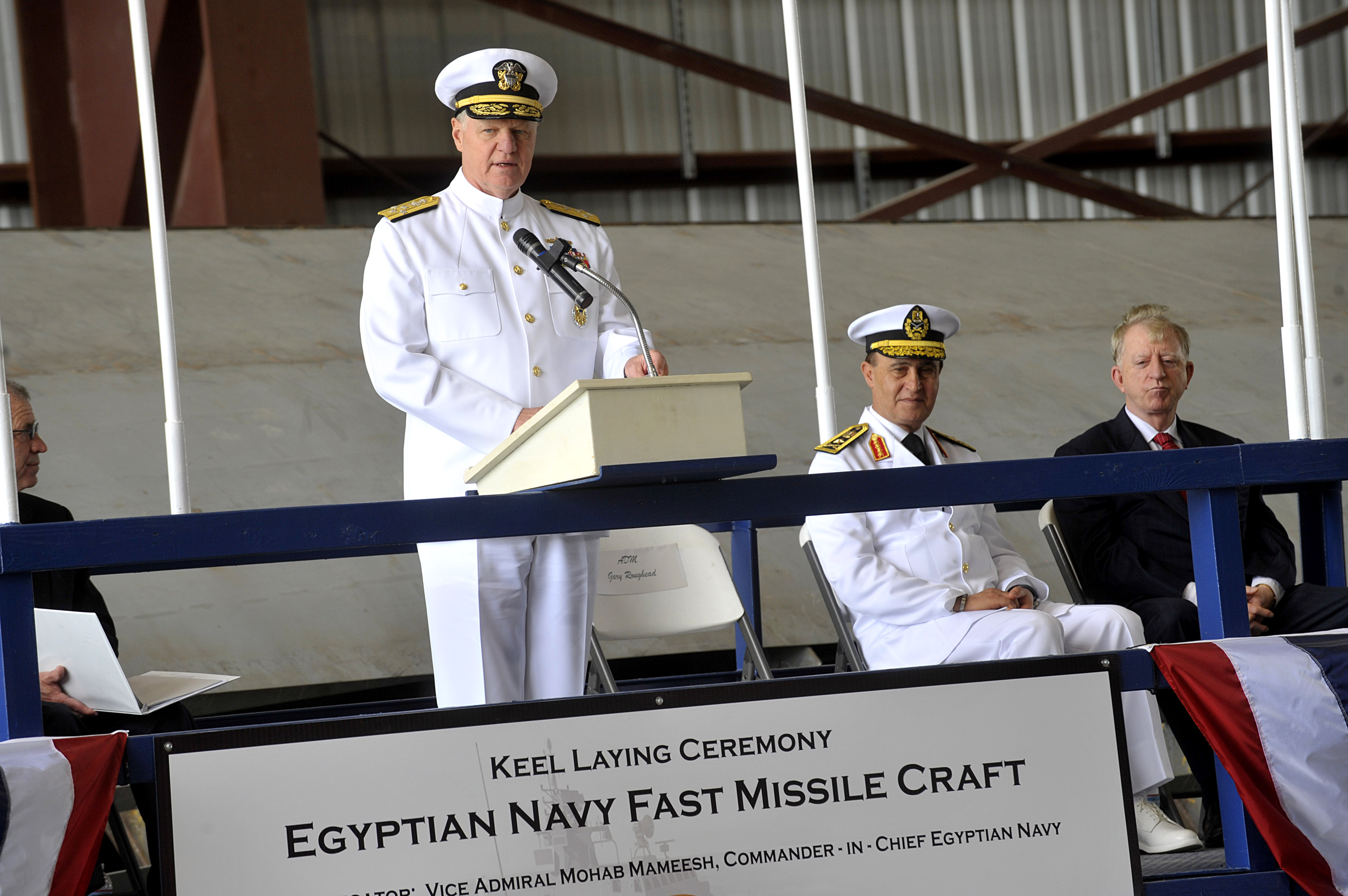 PASCUAGOULA, Miss. (April 7, 2010) Chief of Naval Operations (CNO) Adm. Gary Roughead delivers remarks during a keel laying ceremony for an Egyptian navy fast missile craft. Vice Adm. Mohab Mameesh, right, Commander-in-Chief of the Egyptian navy, also attended the ceremony in Pascagoula, Miss. (U.S. Navy photo by Mass Communication Specialist 1st Class Tiffini Jones Vanderwyst/Released)